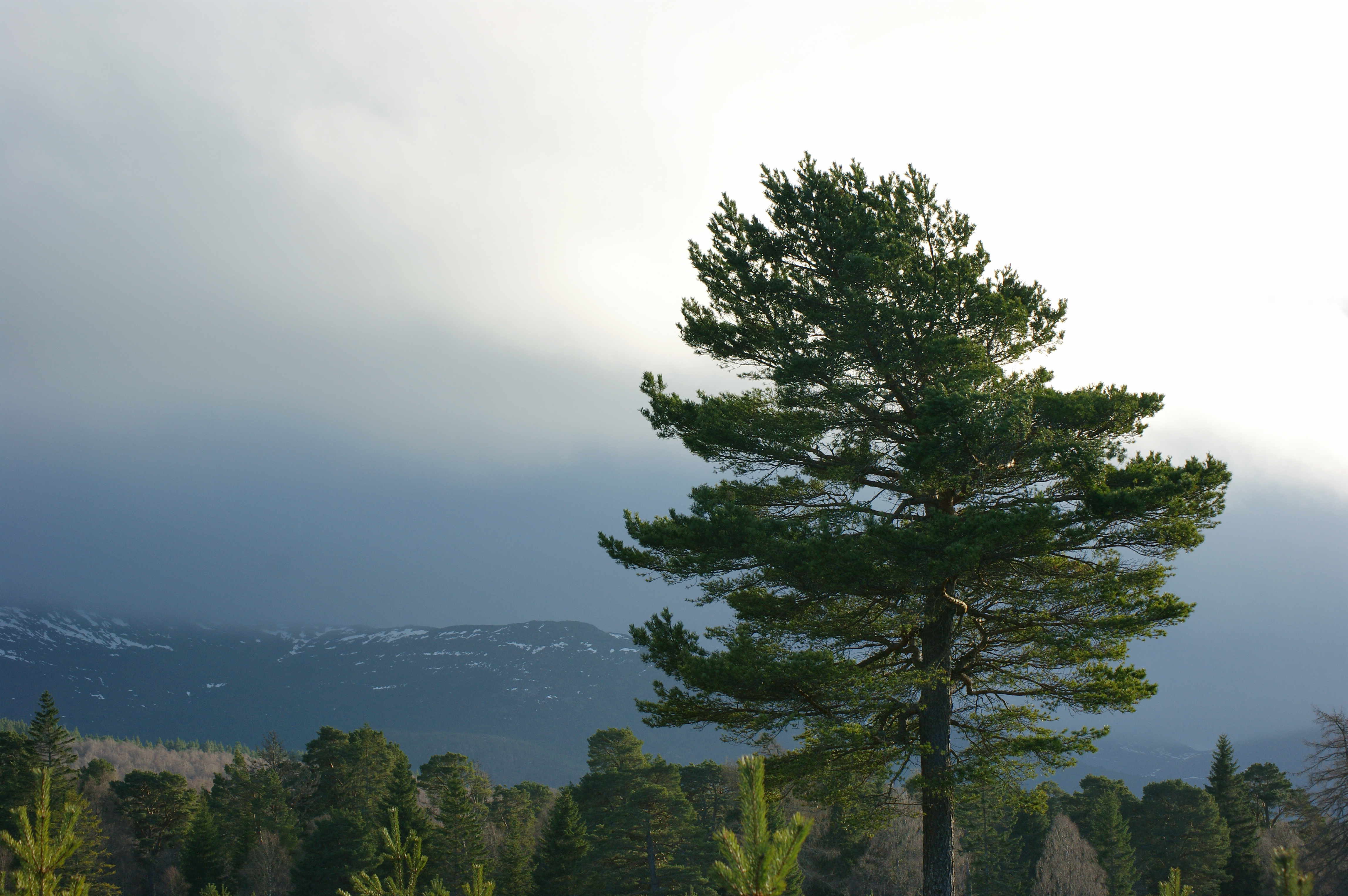 Pinus sylvestris near Aviemore, Speyside, Scotland.